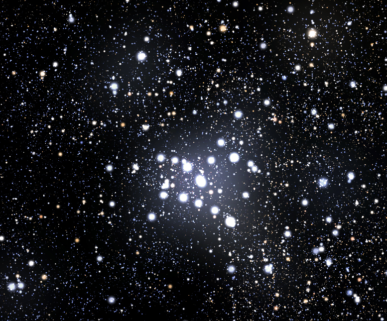 Messier 7, open cluster in Scorpius. Image taken from Stellarium.